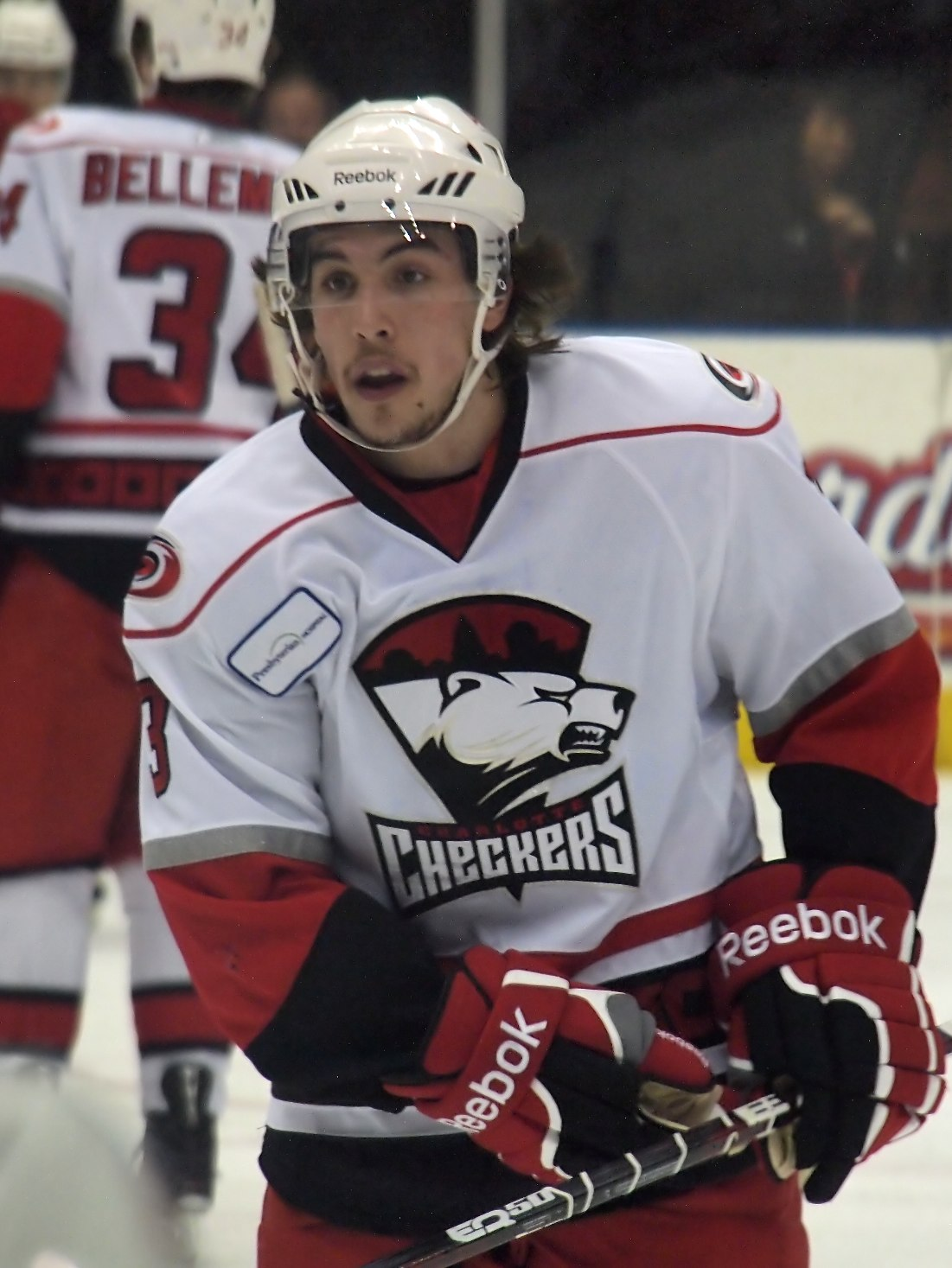 Justin Faulk jersey in the Charlotte Checkers.